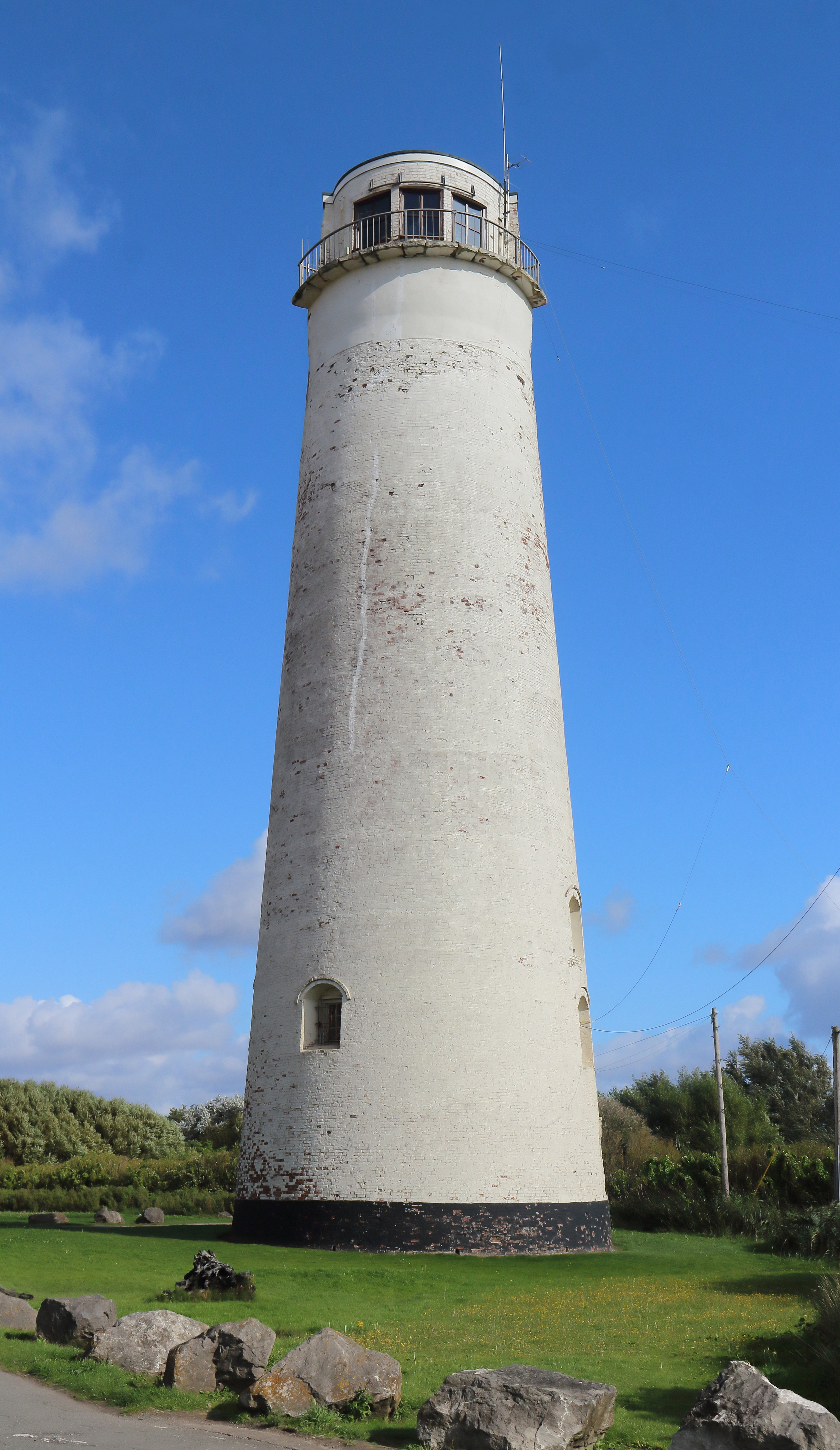 North side of Grade II listed Leasowe Lighthouse. Only the lamp room breaks the upper section, otherwise misleading lights would be shown to seaward.